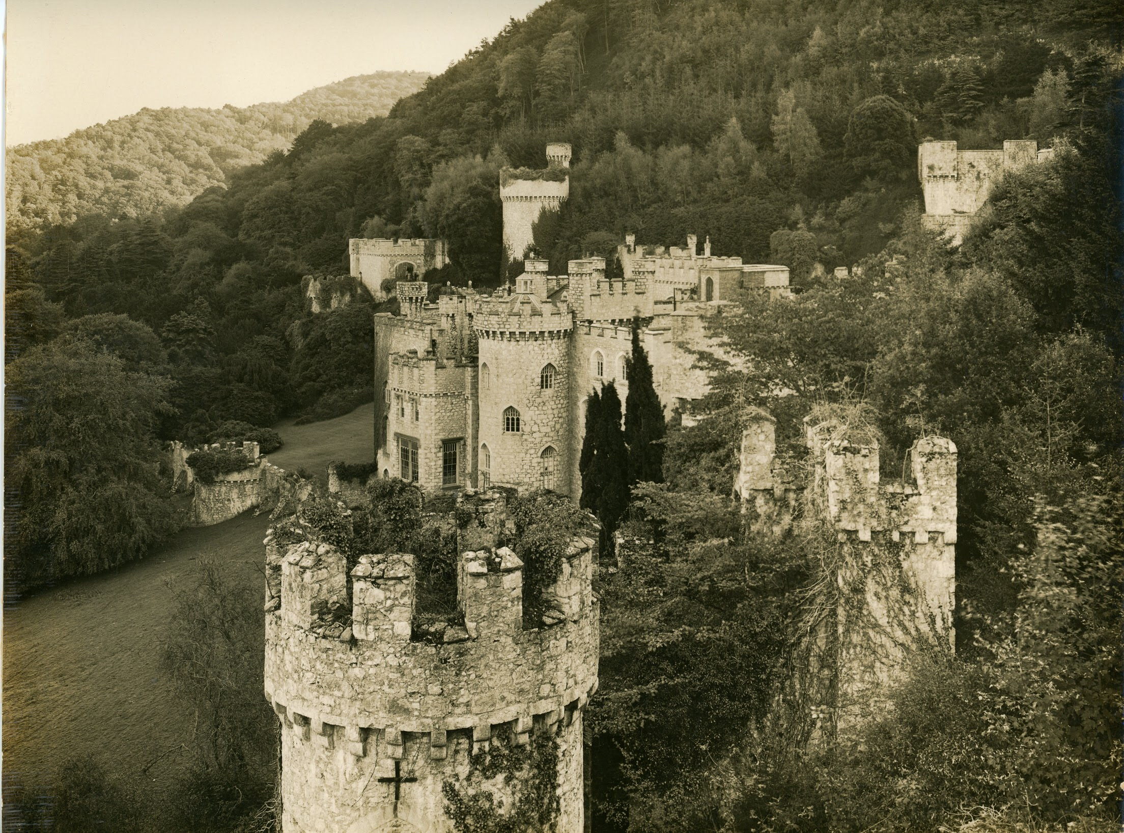 The view of Gwrych Castle from the tallest tower